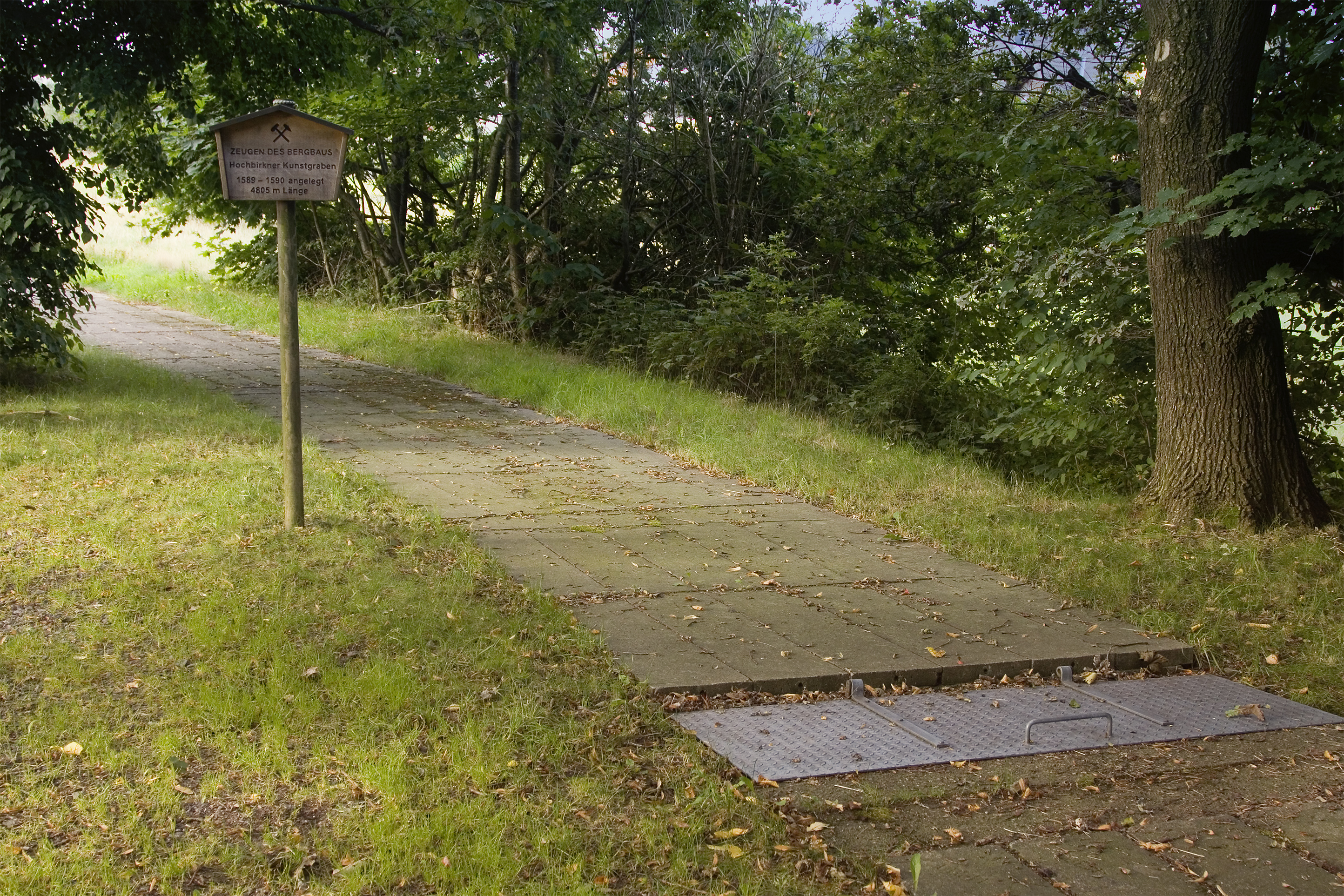 Hohbirker Kunstgraben, (channel made for technical purposes in the Saxon mining region Freiberg, Brand-Erbisdorf, Berthelsdorf, Zug)